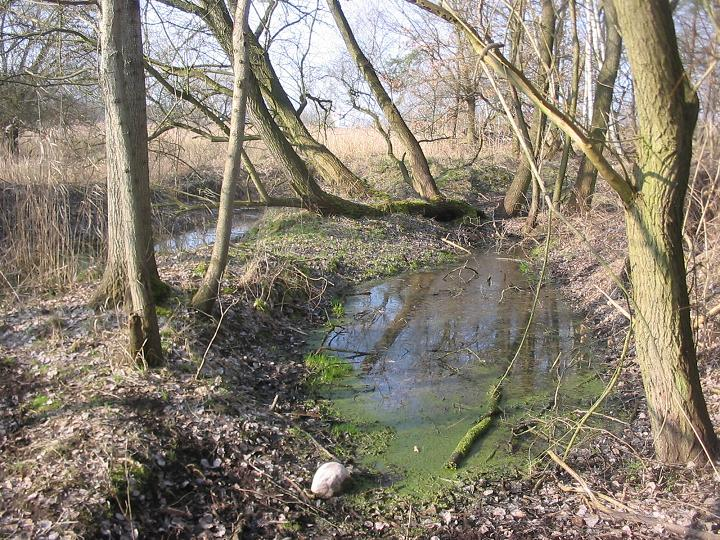 Fen in Löwenbruch. The village Löwenbruch is a part of the town Ludwigsfelde in the district Teltow-Fläming, state Brandenburg, Germany.